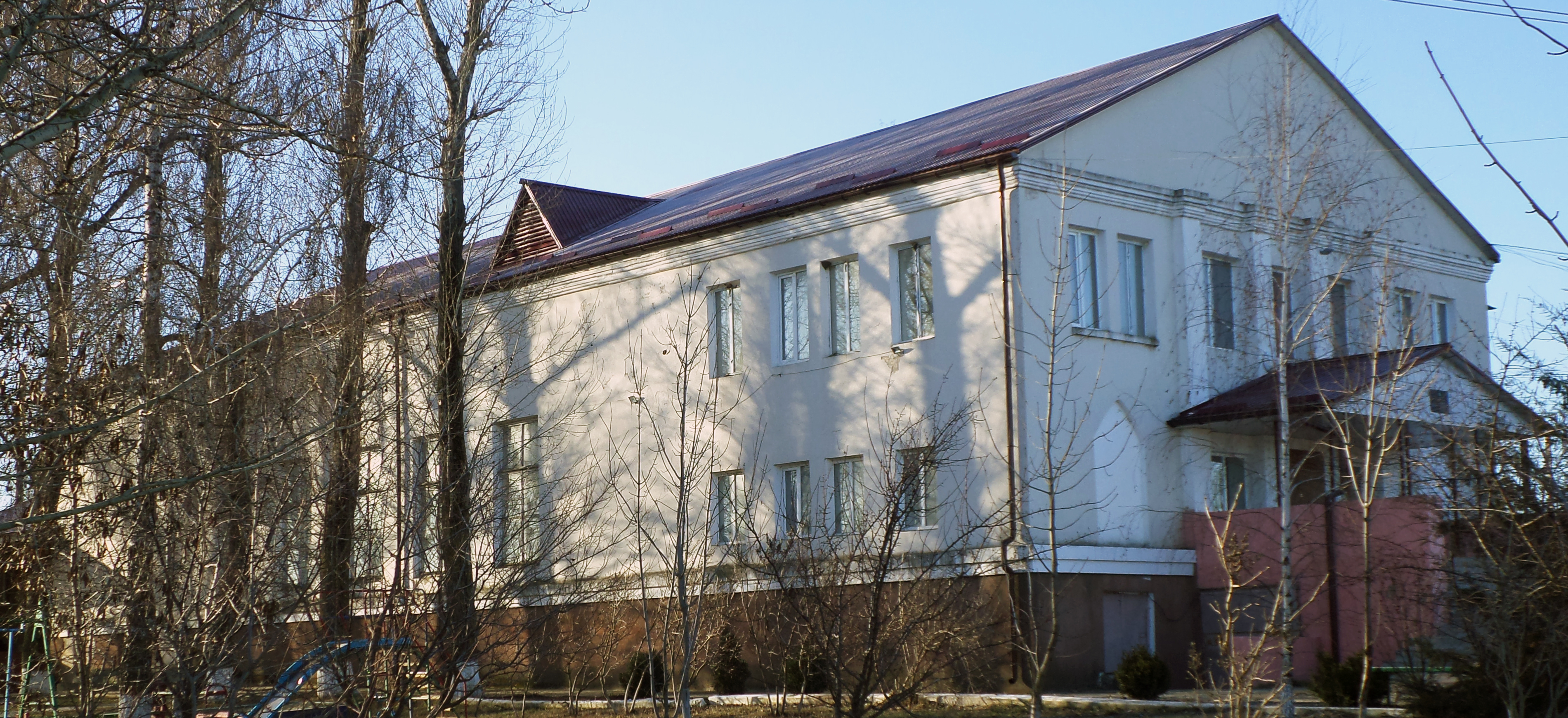 Source = Own work | Author = Eugene Zvarich